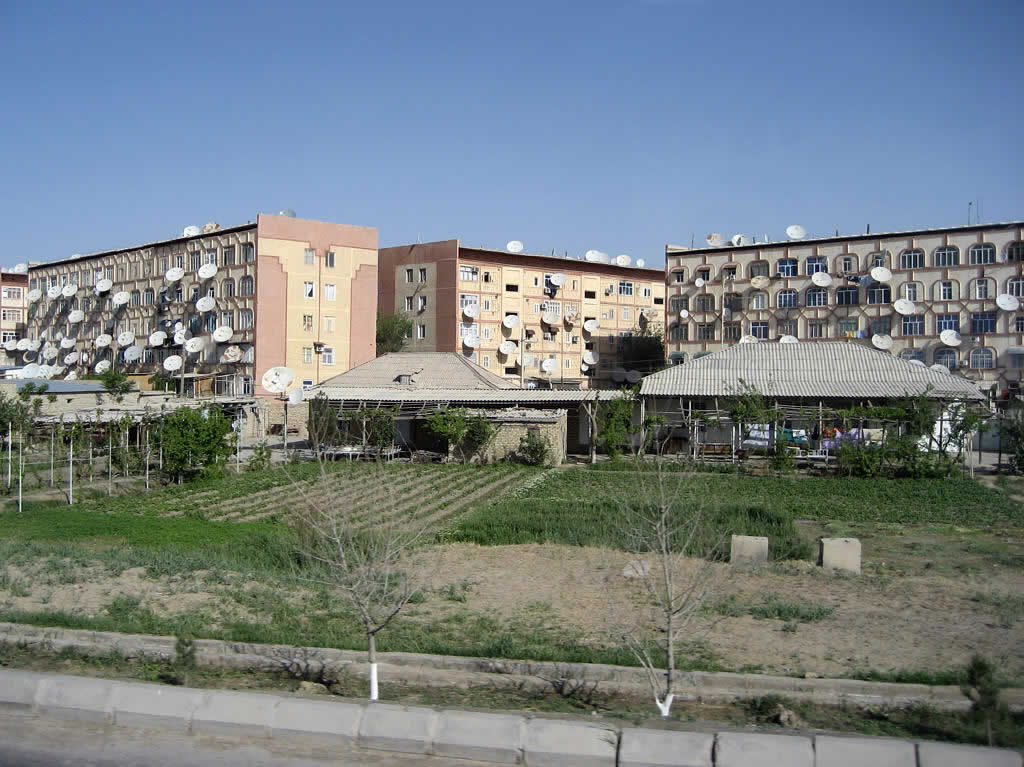 satellite dishes cover three Soviet-era apartment buildings in Mary, Turkmenistan